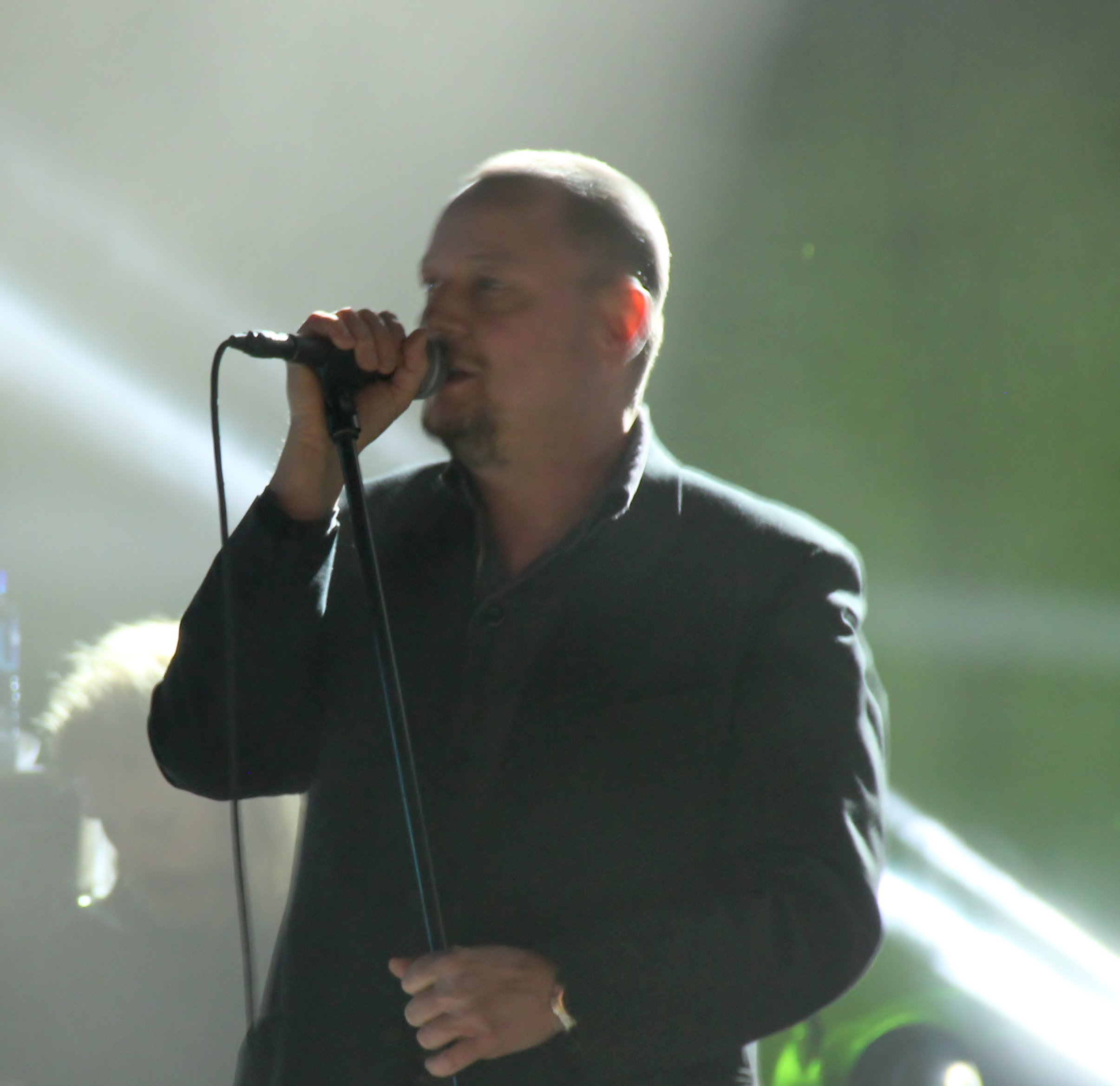 Ragarockers' Michael Krohn at the 2015 Granittrock in Oslo